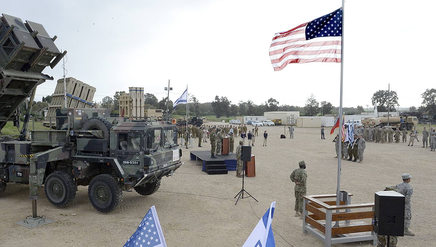 U.S. military and Israeli Defense Forces soldiers and officers celebrate the conclusion of exercise Juniper Cobra 2016, Hazor Air Force Base, Israel, March 3, 2016. After the ceremony, Commander of U.S. European Command, Gen. Philip Breedlove, Israel Defense Forces Chief of Staff Lt. Gen. Gadi Eizenkot, Israeli Air Force Commander Maj. Gen Amir Eshel, Brig. Gen. Zvika Haimovitch observed a flyover salute of four F-16 jets. Photo credit: Matty Stern/U.S Embassy Tel Aviv